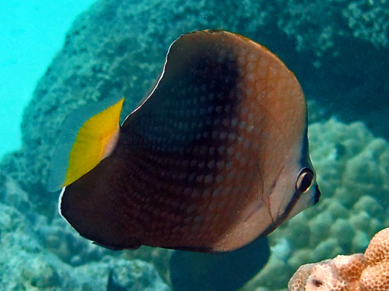 Chaetodon trichrous from Tuamotu Archipelago